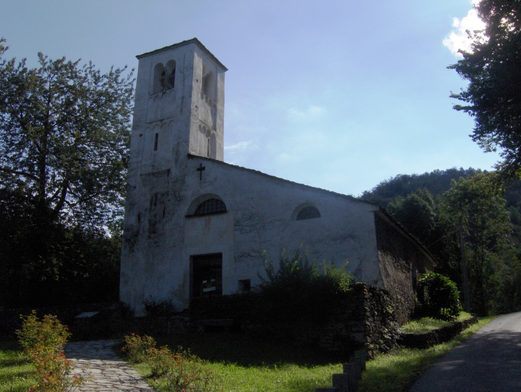 frantal wiew